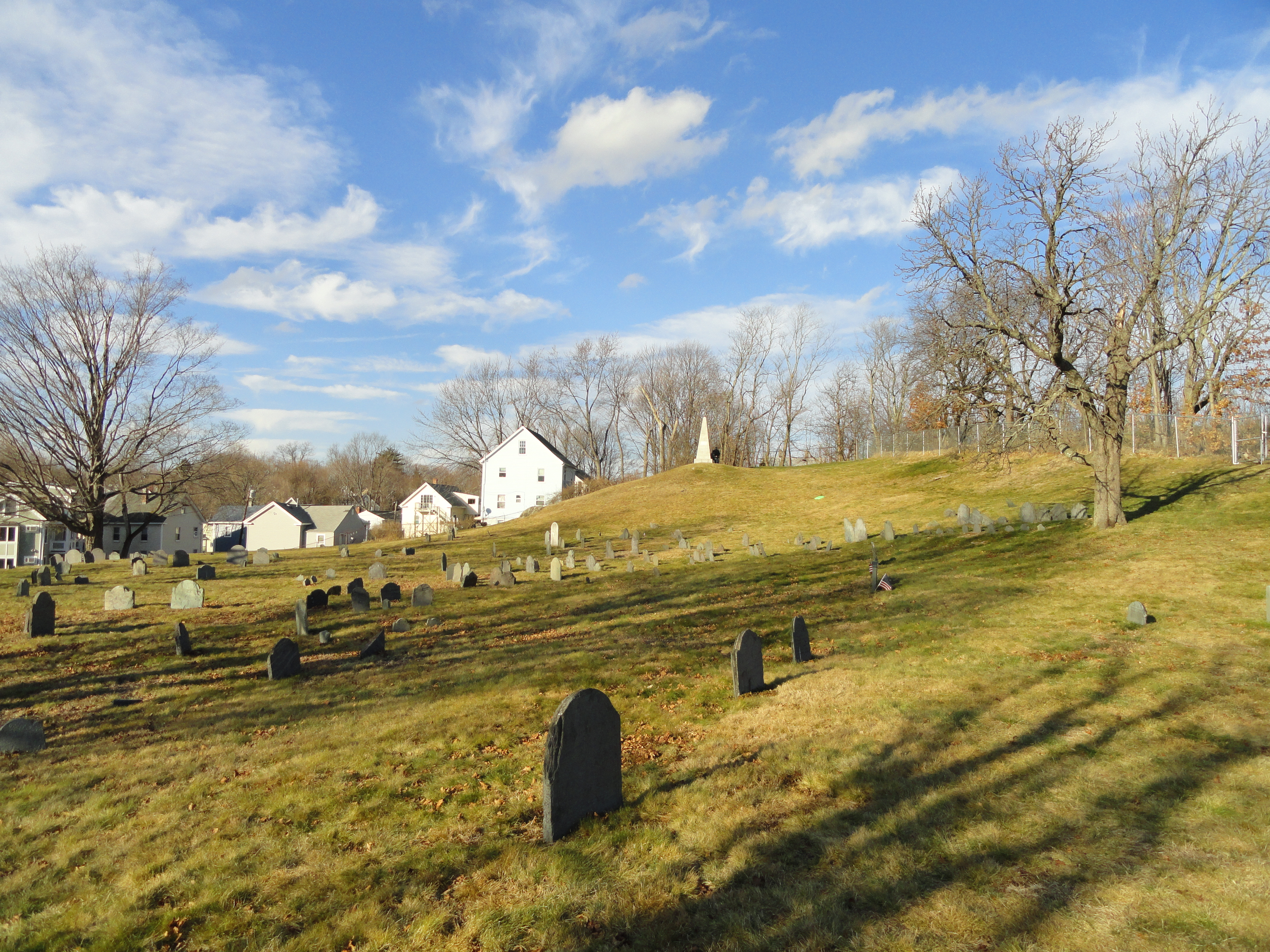 First Burial Ground, Woburn, Massachusetts, USA. In use from 1642 to 1794.